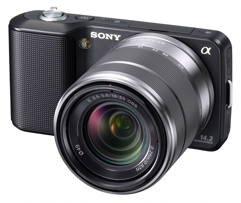 "Great for someone thinking about buying an SLR but is intimidated and doesn't want the size and weight, and for lovers of SLRs that want a more portable camera but not a point-and-shoot." -- Danielle Levitas, IDC Intel Free Press story: Holiday Gift Guide: Tech Experts' Top Picks. Sony